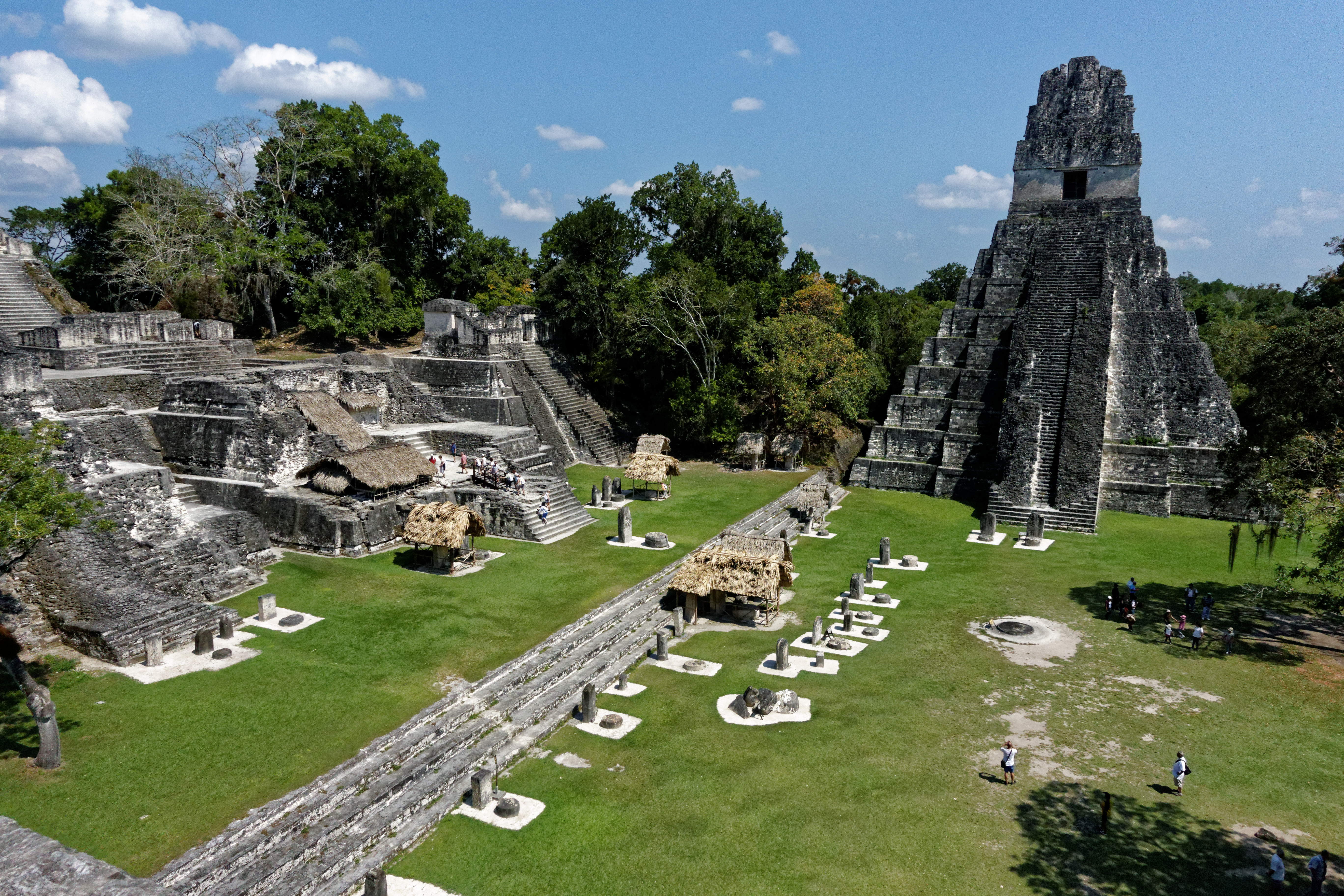 Tikal 2-19